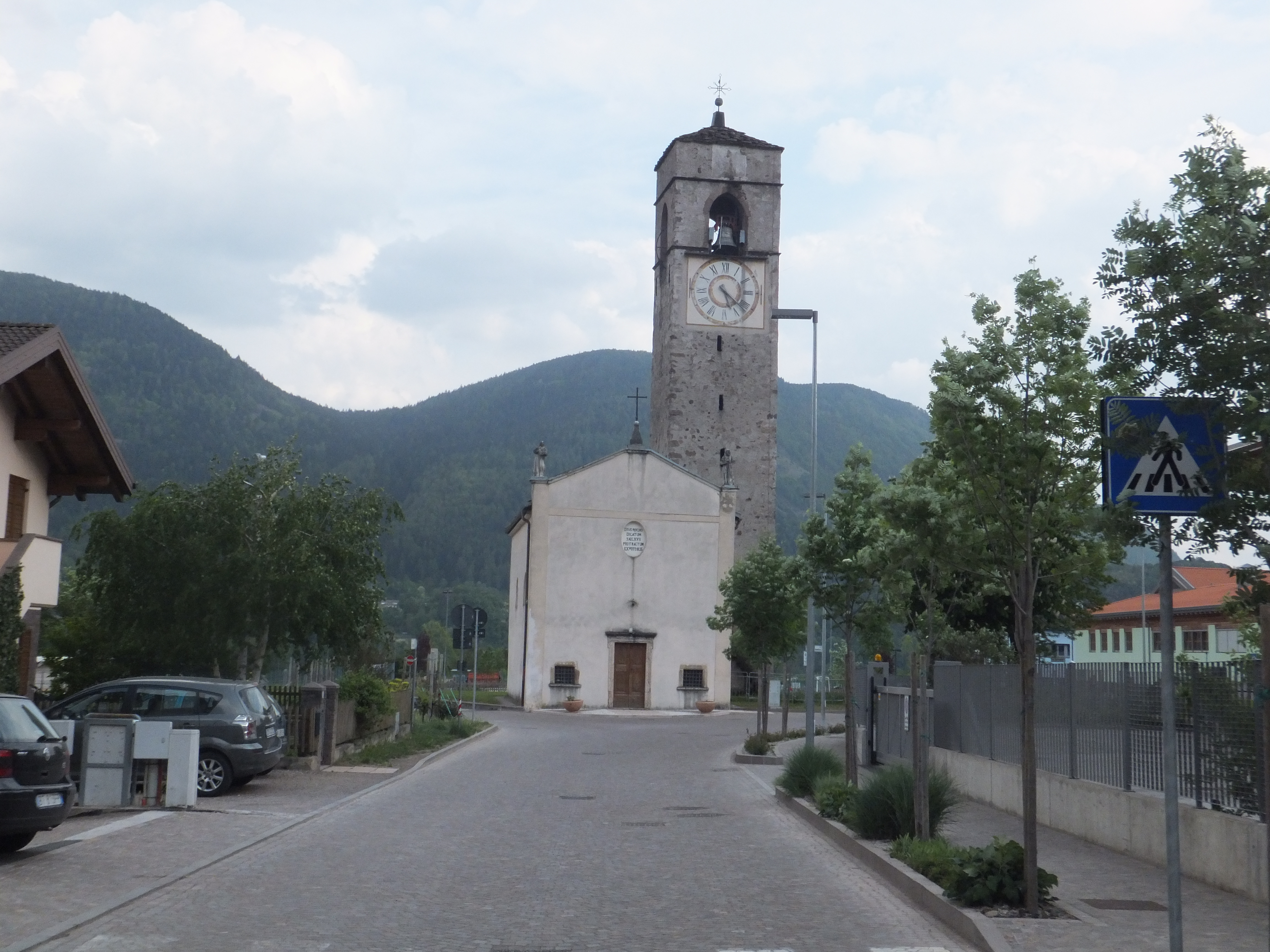 Cembra - Church of Saint Roch